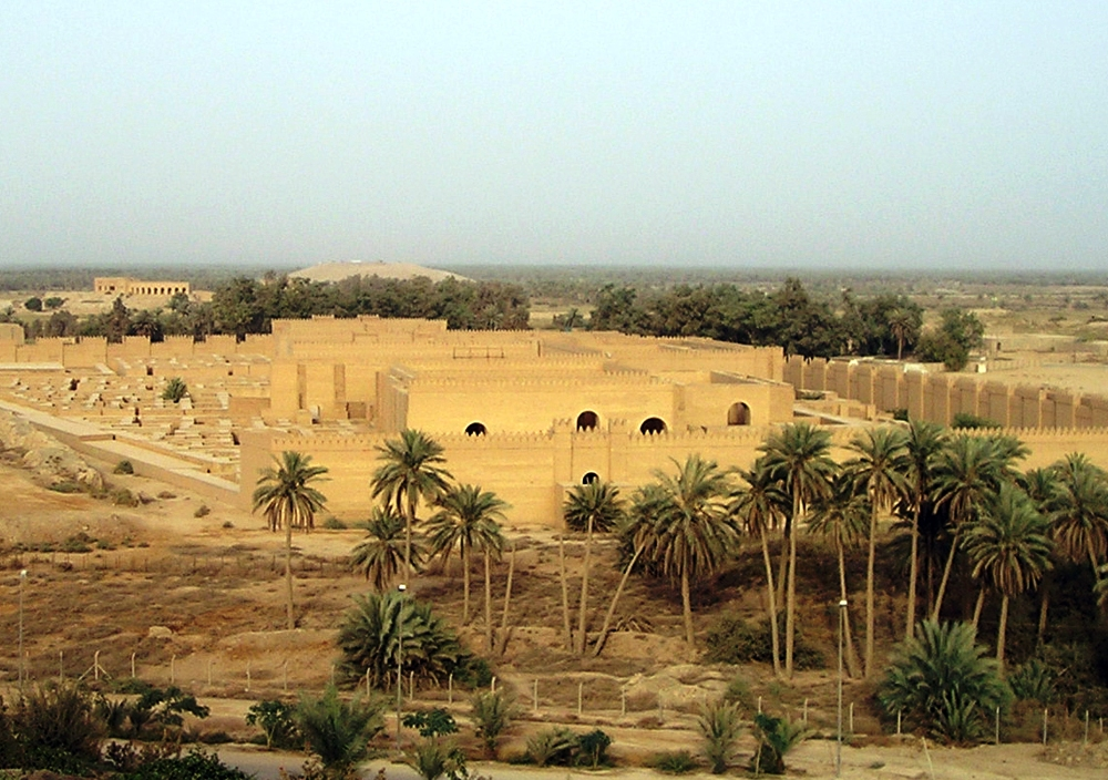 A hilltop view of the ancient city of Babylon, where King Nebuchadnezzar II, whose life spanned 630-562 B.C., built his hanging gardens, one of the Seven Wonders of the World.